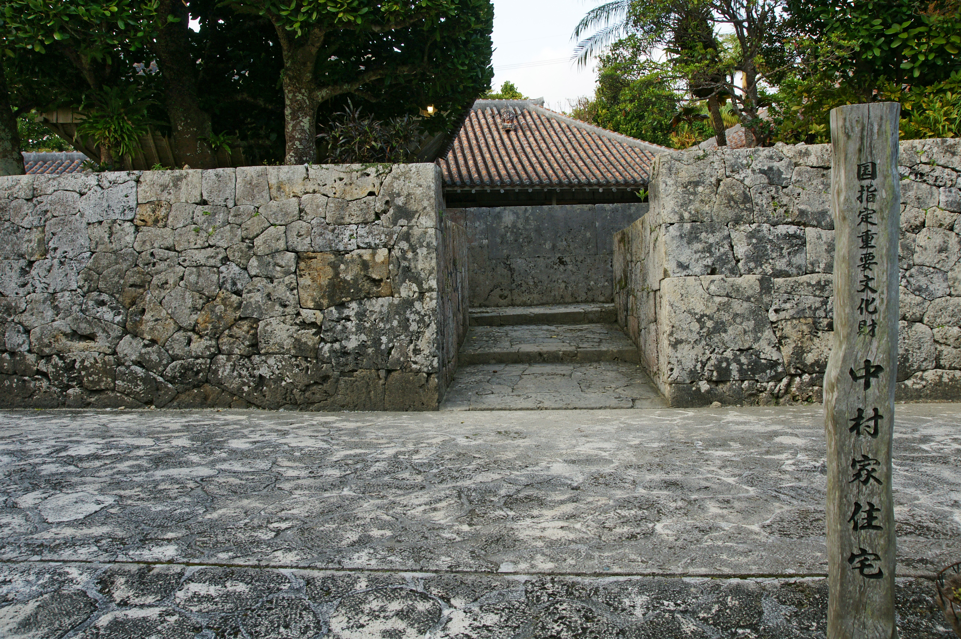 Nakamura House in Kitanakagusuku, Okinawa prefecture, Japan.